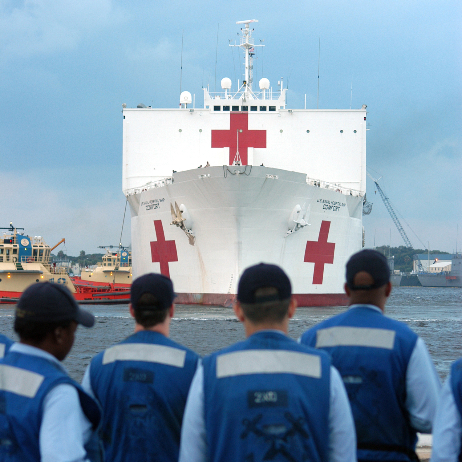 U.S. Navy sailors await the arrival of the Military Sealift Command (MSC) hospital ship USNS Comfort (T-AH-20) way to aid victims of Hurricane Katrina as it prepares to make port in Naval Station Mayport, Florida, to take on supplies on their way to aid victims of Hurricane Katrina, September 5, 2005.